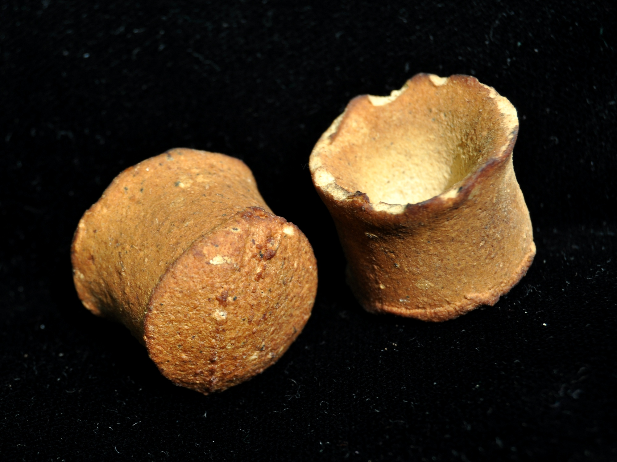 Gambier, dried extract of Uncaria gambir leaves; from local market in the city of Bogor, West Java, Indonesia.